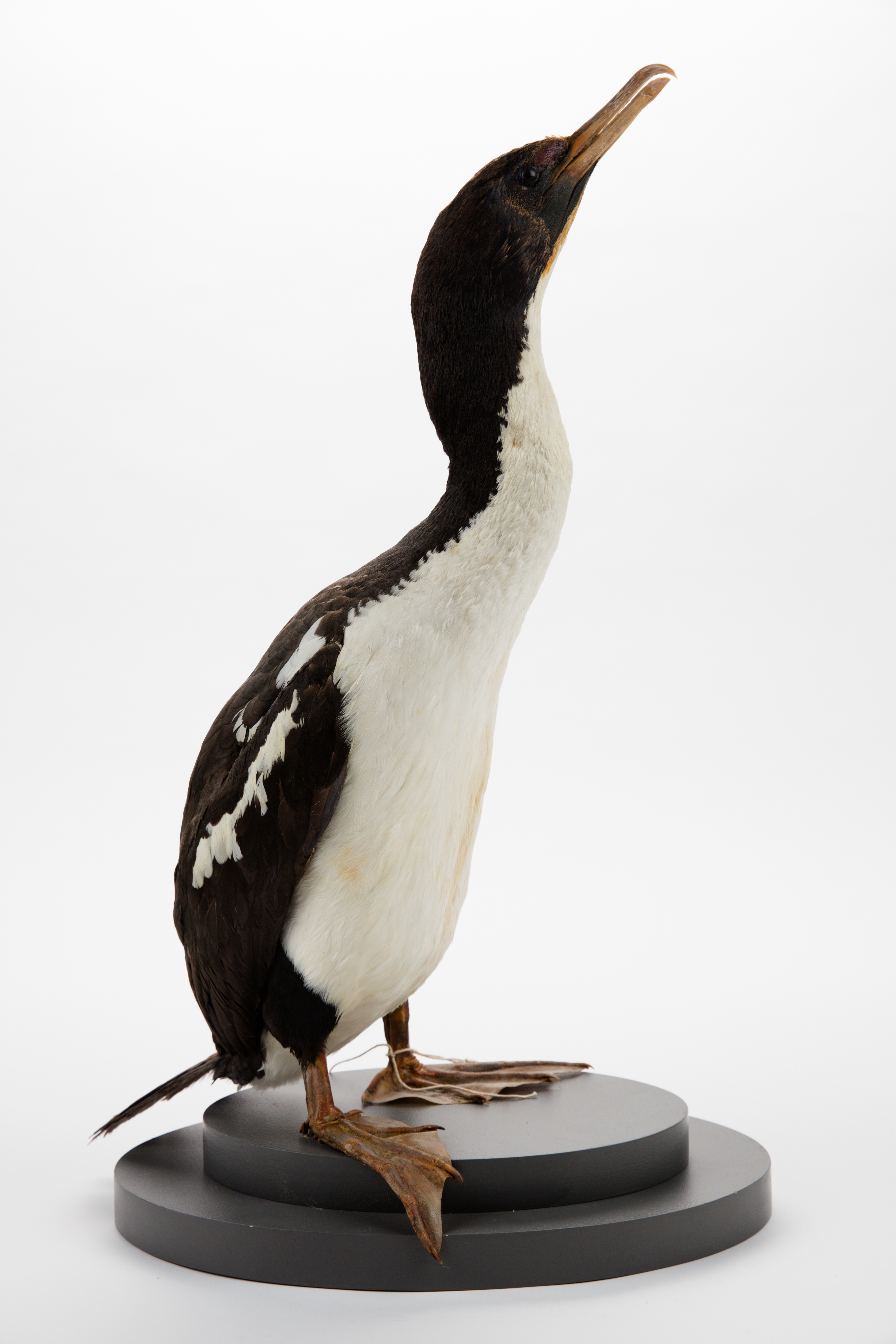 Male New Zealand king shag/kawau (Leucocarbo carunculatus) mount from the collection of Auckland Museum